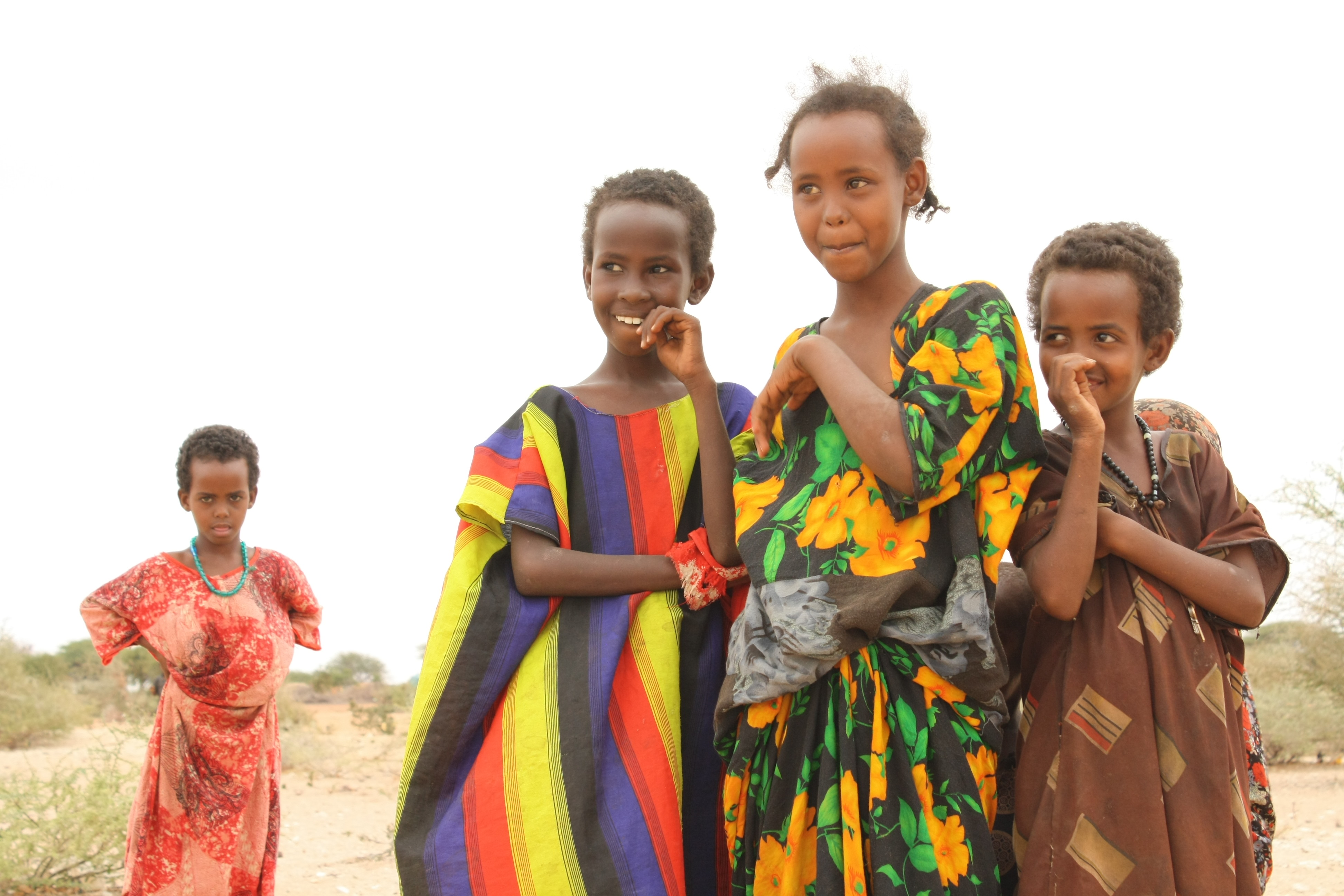 Many children here in Kulaley suffer from sickness and diarrhoea through poor sanitation and lack of nutrients. Meat and milk - their main source of protein - are now scarce or expensive.